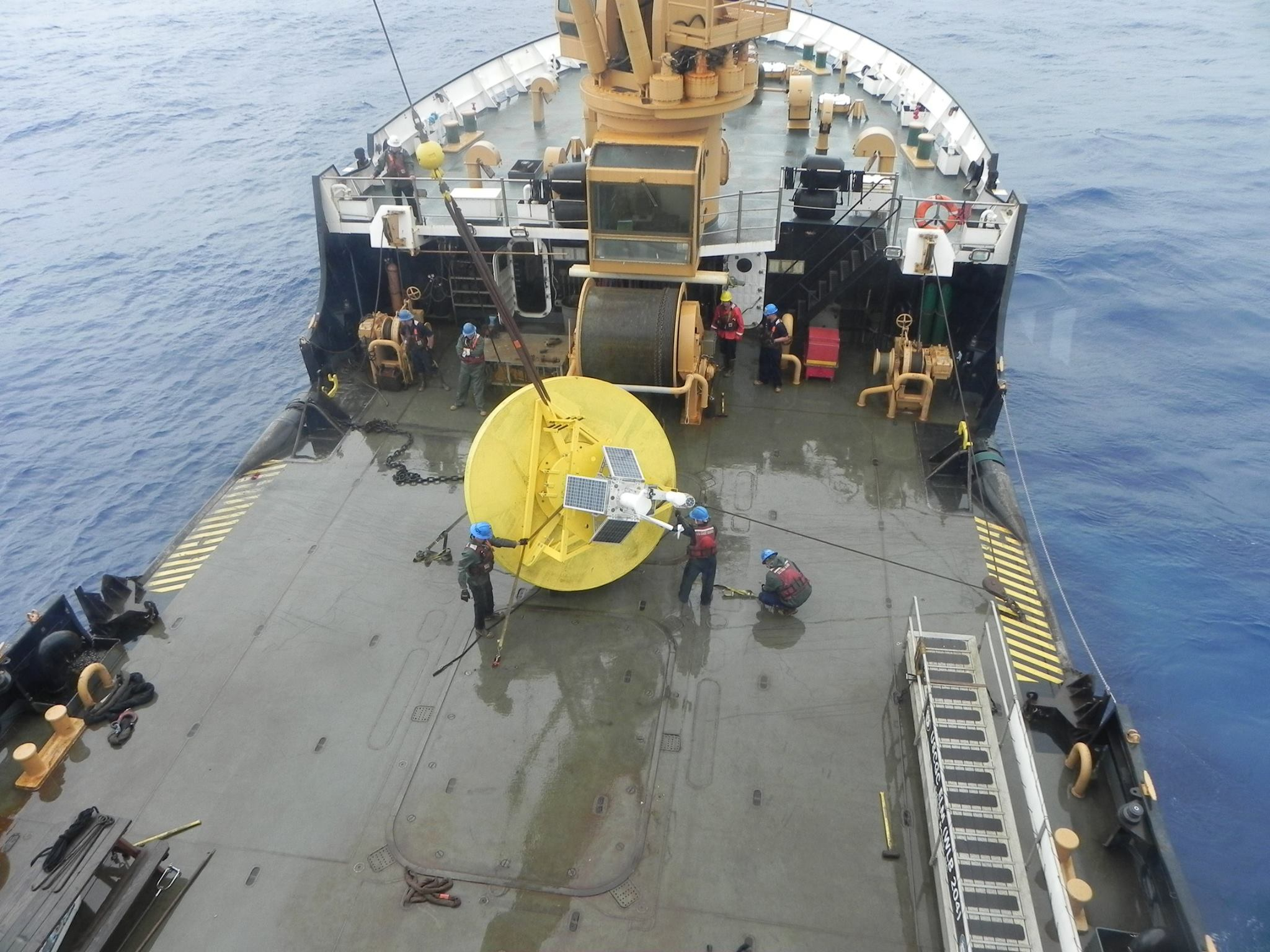 USCGC Elm recovers a NOAA wether buoy that went adrift in the Atlantic Ocean